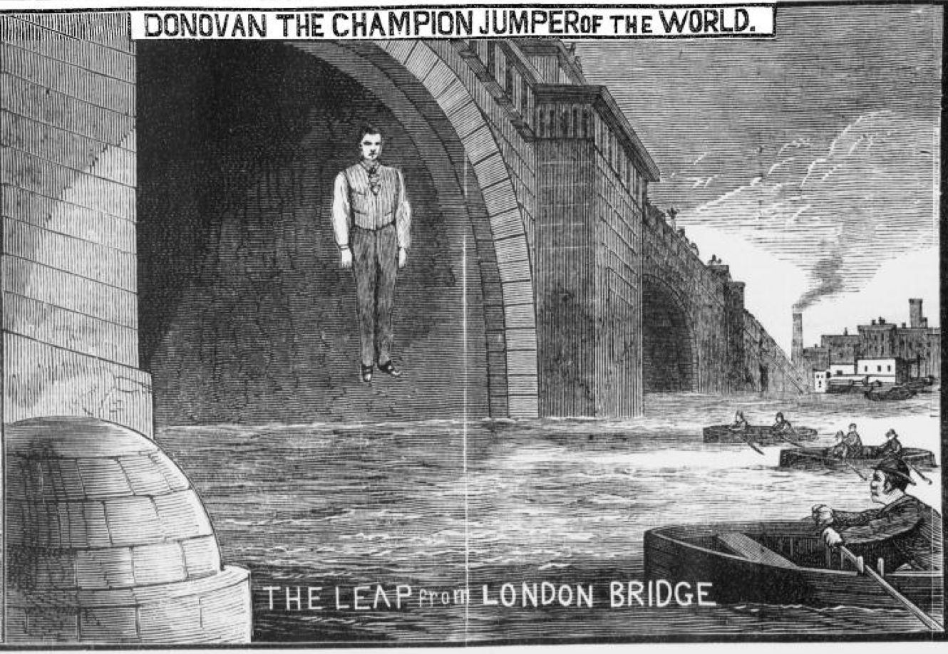 Illustration of Larry Donovan jumping from London Bridge.